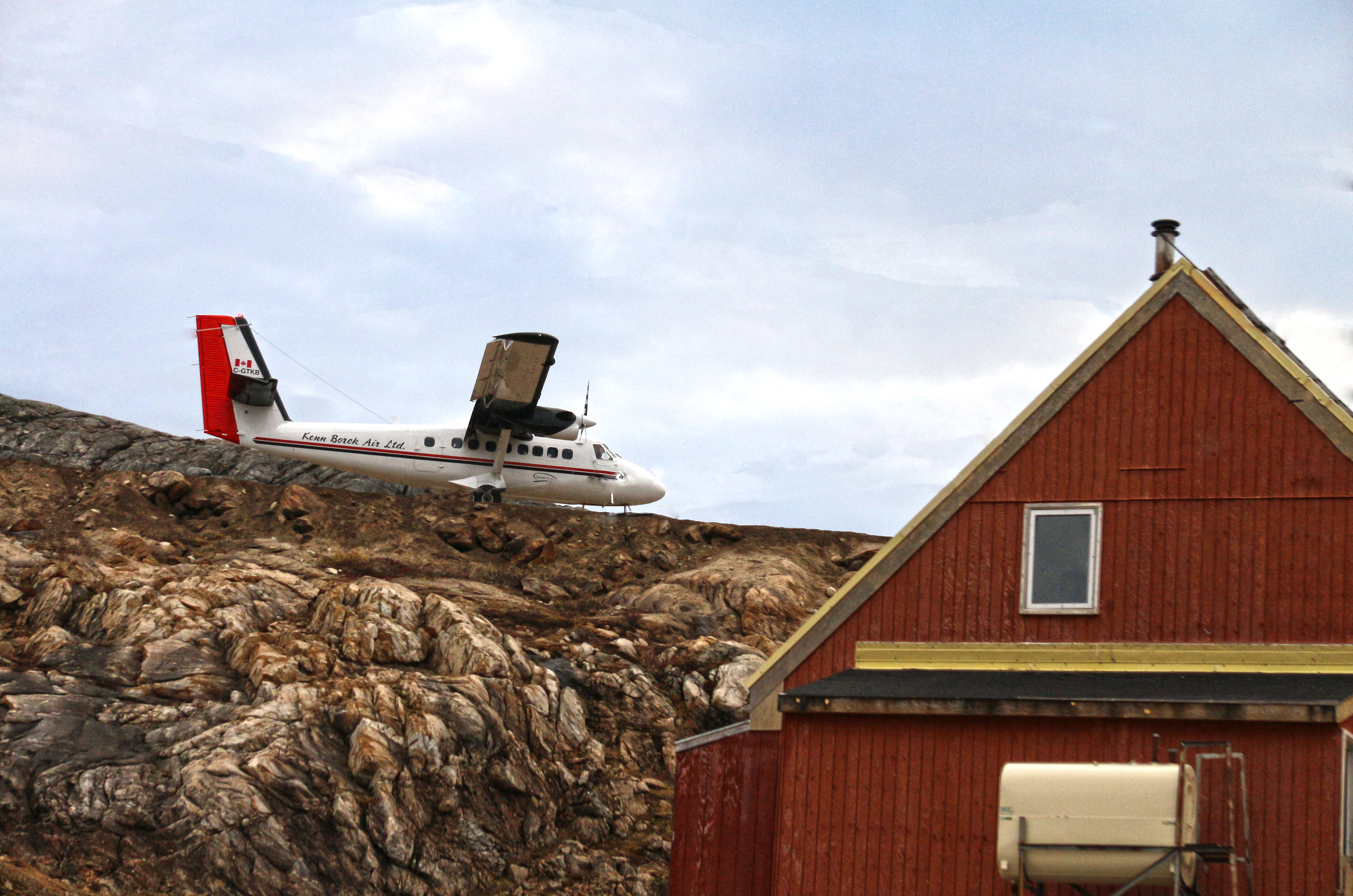 Taken from just below the runway from near the Inns North